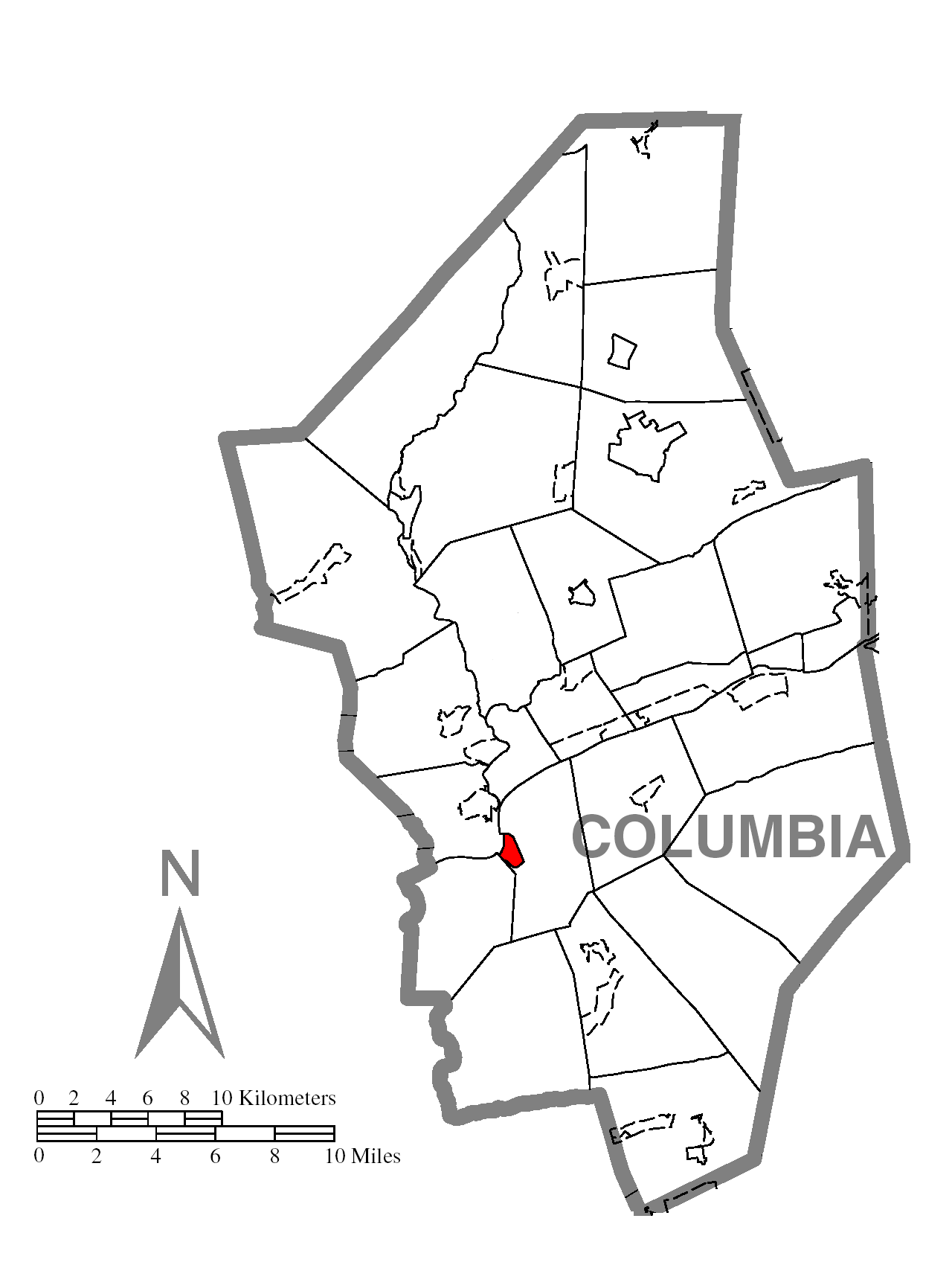 A map of Columbia County showing Catawissa, Pennsylvania (alternate) highlighted on the map.